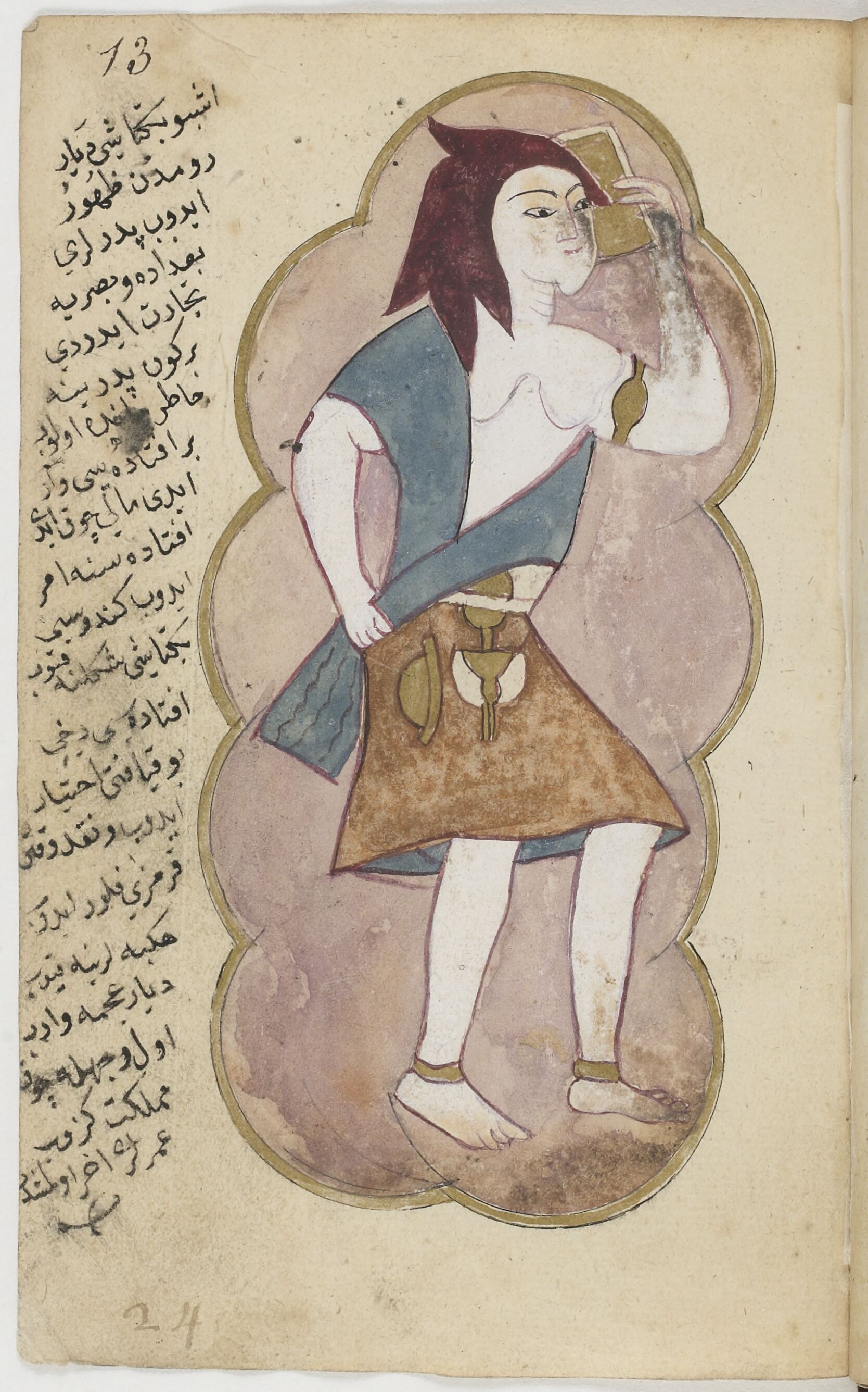 Hajji Bektash Wali, sufi.